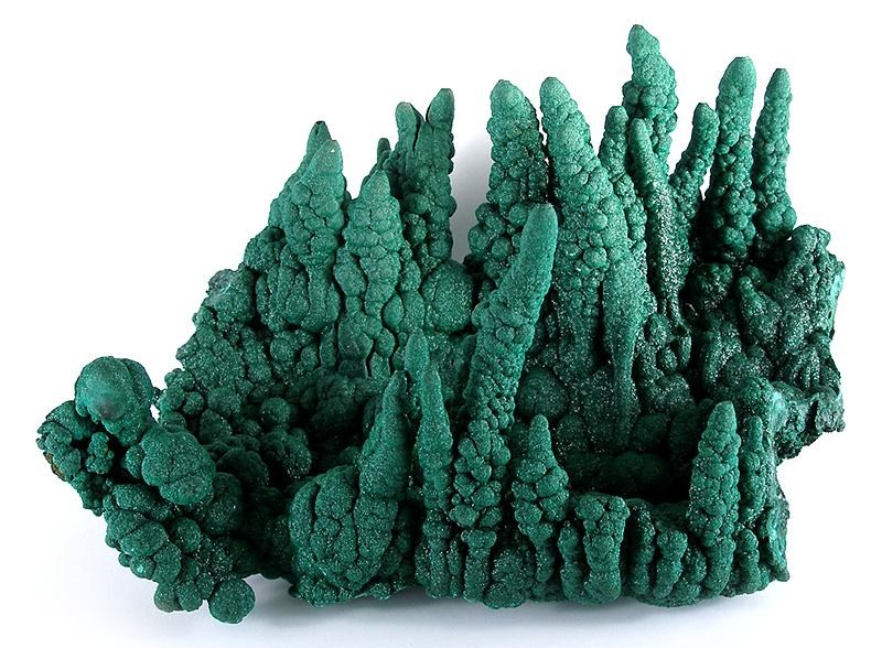 Malachite Locality: Kasompi Mine (Menda Mine; Kasompi Hill), Swambo, Central area, Katanga Copper Crescent, Katanga (Shaba), Democratic Republic of Congo (Zaïre) (Locality at ) Size: 21.6 x 16.0 x 11.9 cm. This is a large plate that is remarkably undamaged and has TWO rows of stalactites (to 9 cm height) marching from left to right , one at the bottom and one row at the top. It is almost unbelievable that this could have been extracted with no damage of note, no missing major tips. The rolling texture of the piece is much more 3-dimensional in person, and the double rows of stalactites give it a relief you normally don't see in large plates. The surface is "sparkly" due to microcrystalline secondary growth.